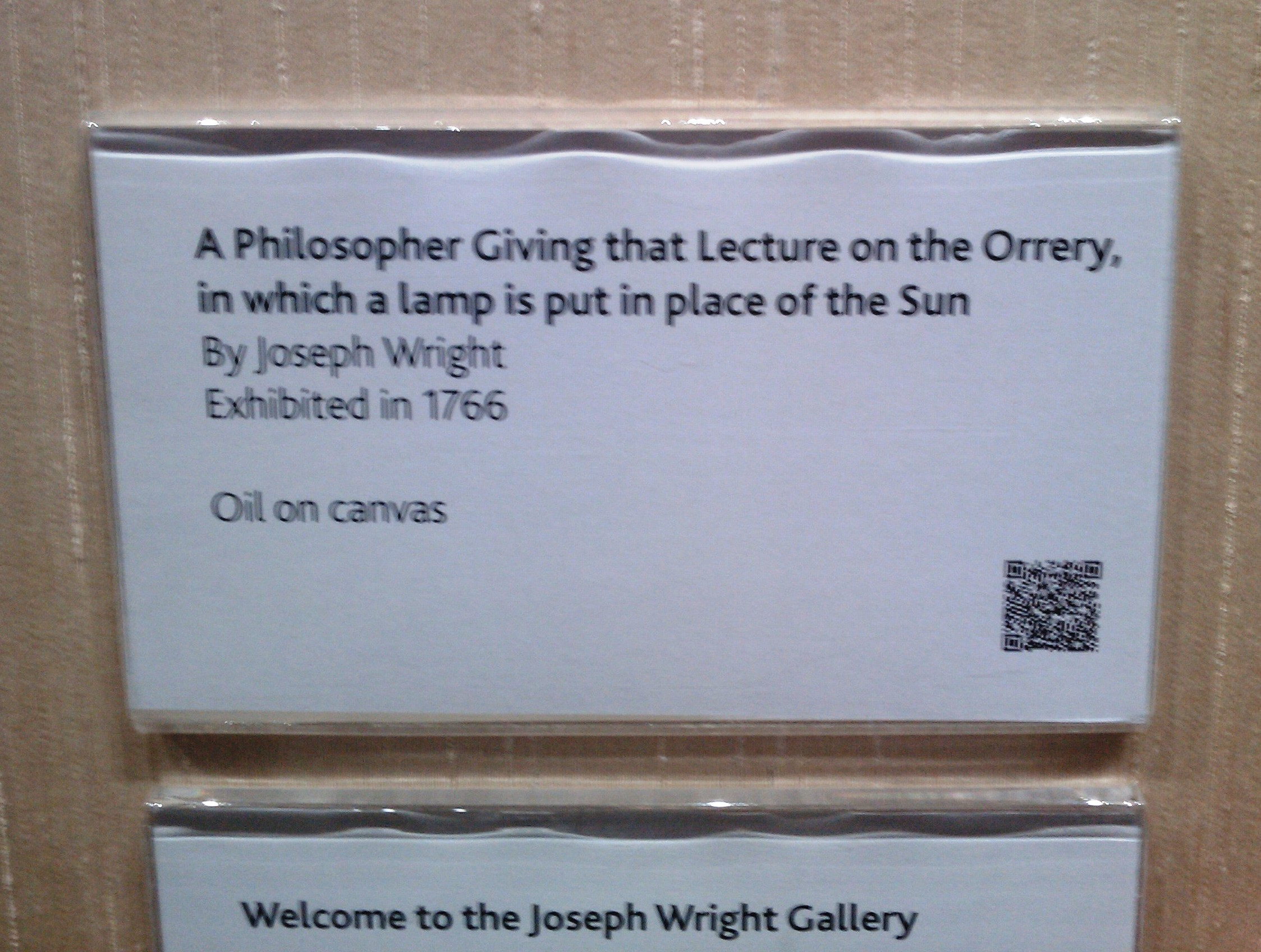 These Quick Response Codes are on labels which just show the title of an old painting by Joseph Wright of Derby